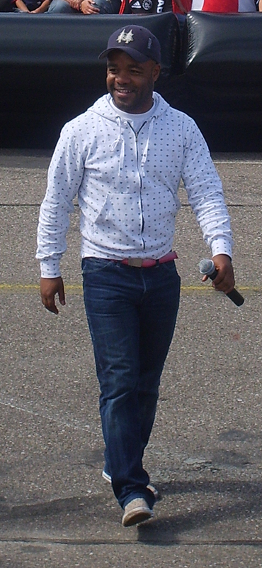 Chris Silos at an Ajax-related-event.